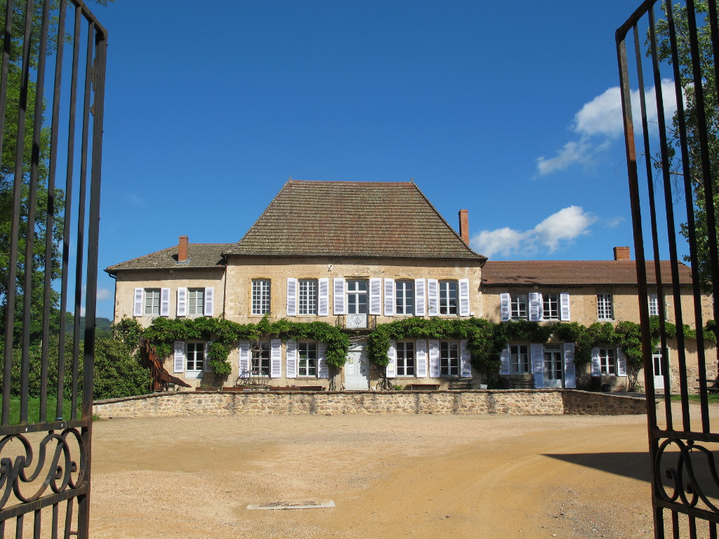 Maison des Patrimoines en Bourgogne du Sud in Matour, France